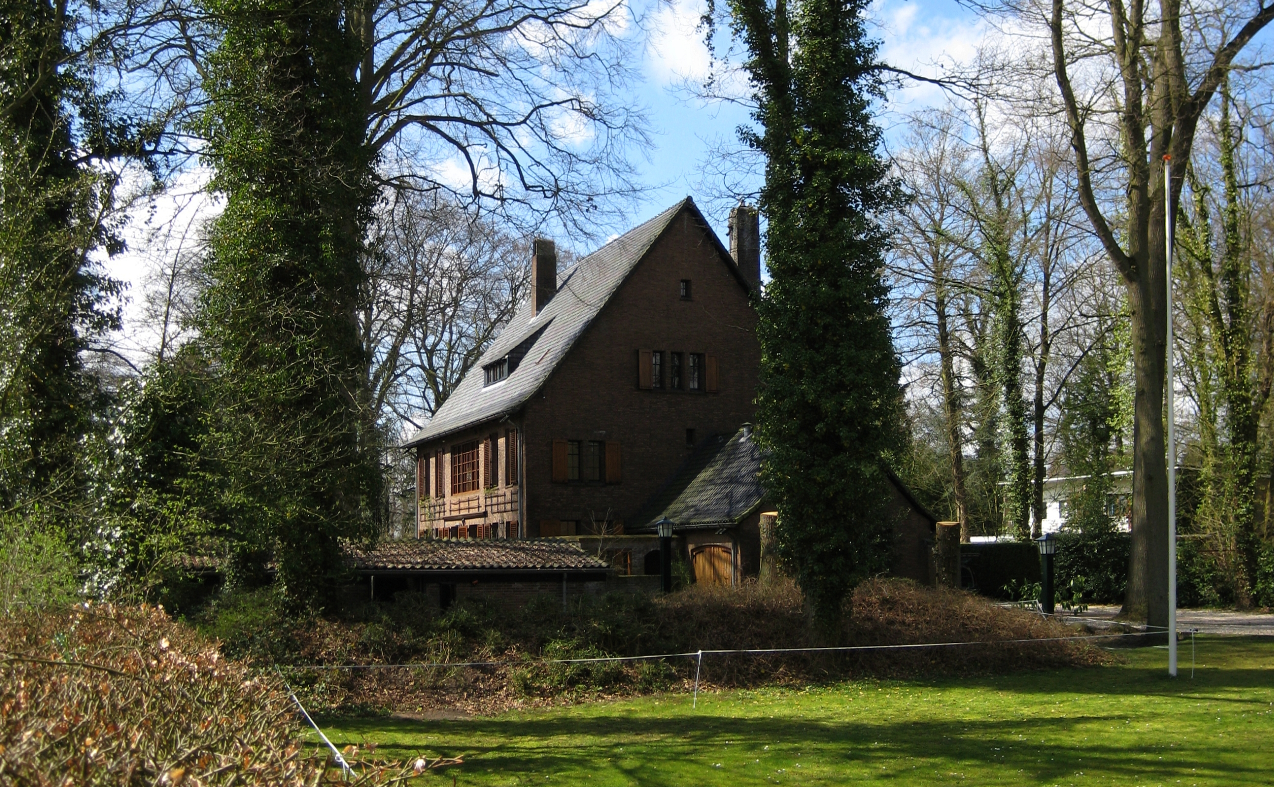 Esserkamp (1936), a "villa bunker" in the Dutch city of Groningen.